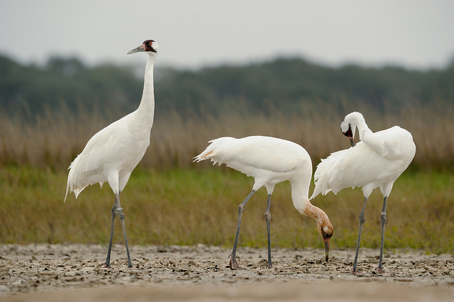 Aransas National Wildlife Refuge Photo: USFWS